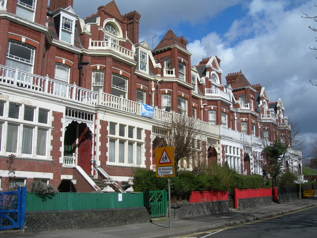 Houses on Hornsey Lane, N19 These are some large and distinctive houses.